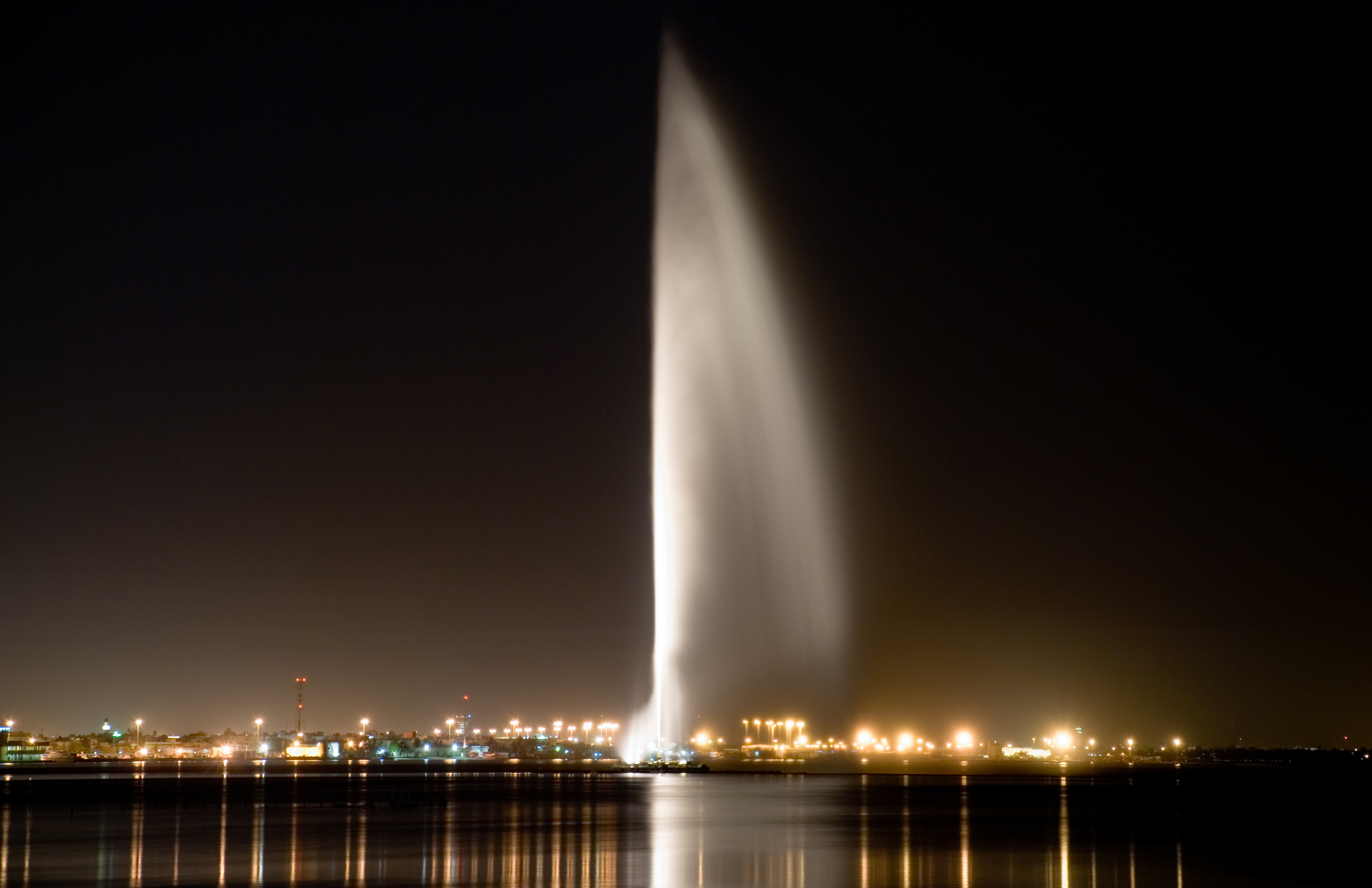 Bahrain fountain.